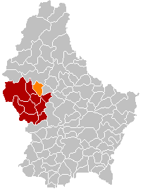 Own edit of Kanton RedangeLocatie.png